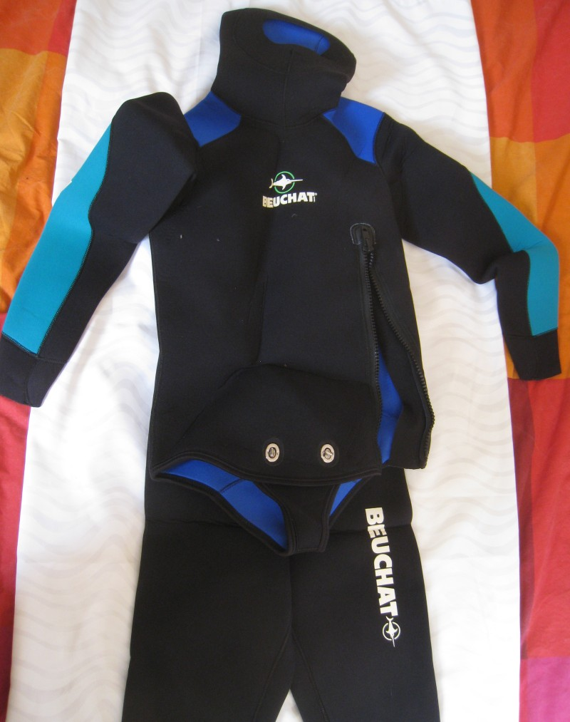 Beuchat neopren wetsuit (from around 1995)